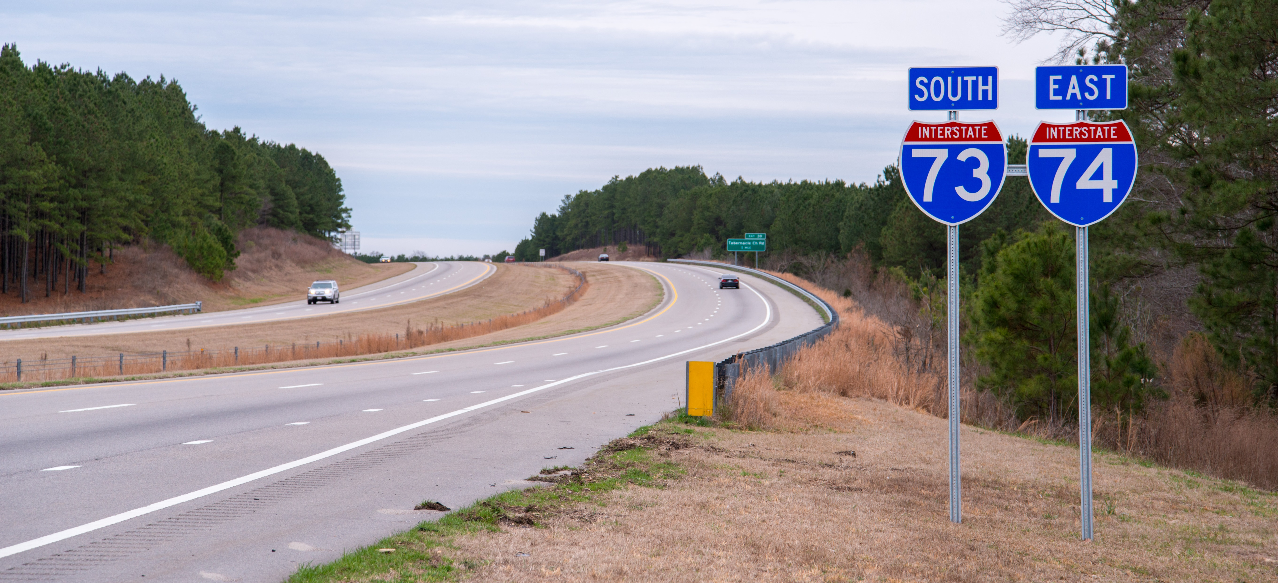 Rural Interstate I-73 and I-74 towards Ellerbe. In the distance is the next exit for Tabernacle Church Road.